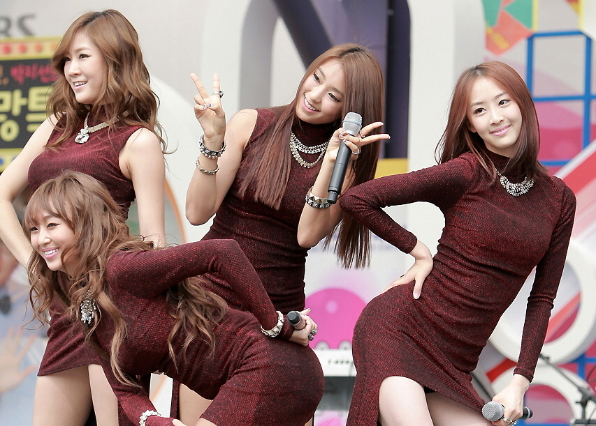 2012.06.09 서울 양천구 파리공원 육우데이 SBS파워FM 특집공개방송 " 박영진 박지선의 명랑특급" 씨스타 _ 나혼자 , so cool